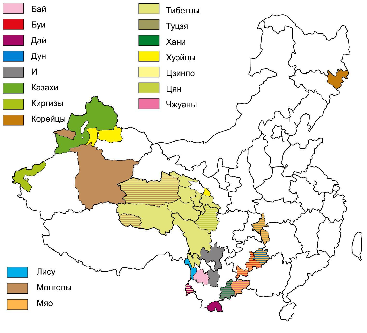 Autonomous prefectures of China